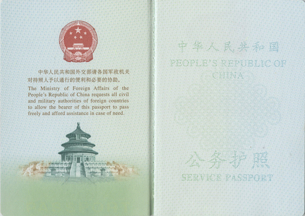 Info Page of the Chinese Service E-Passport.